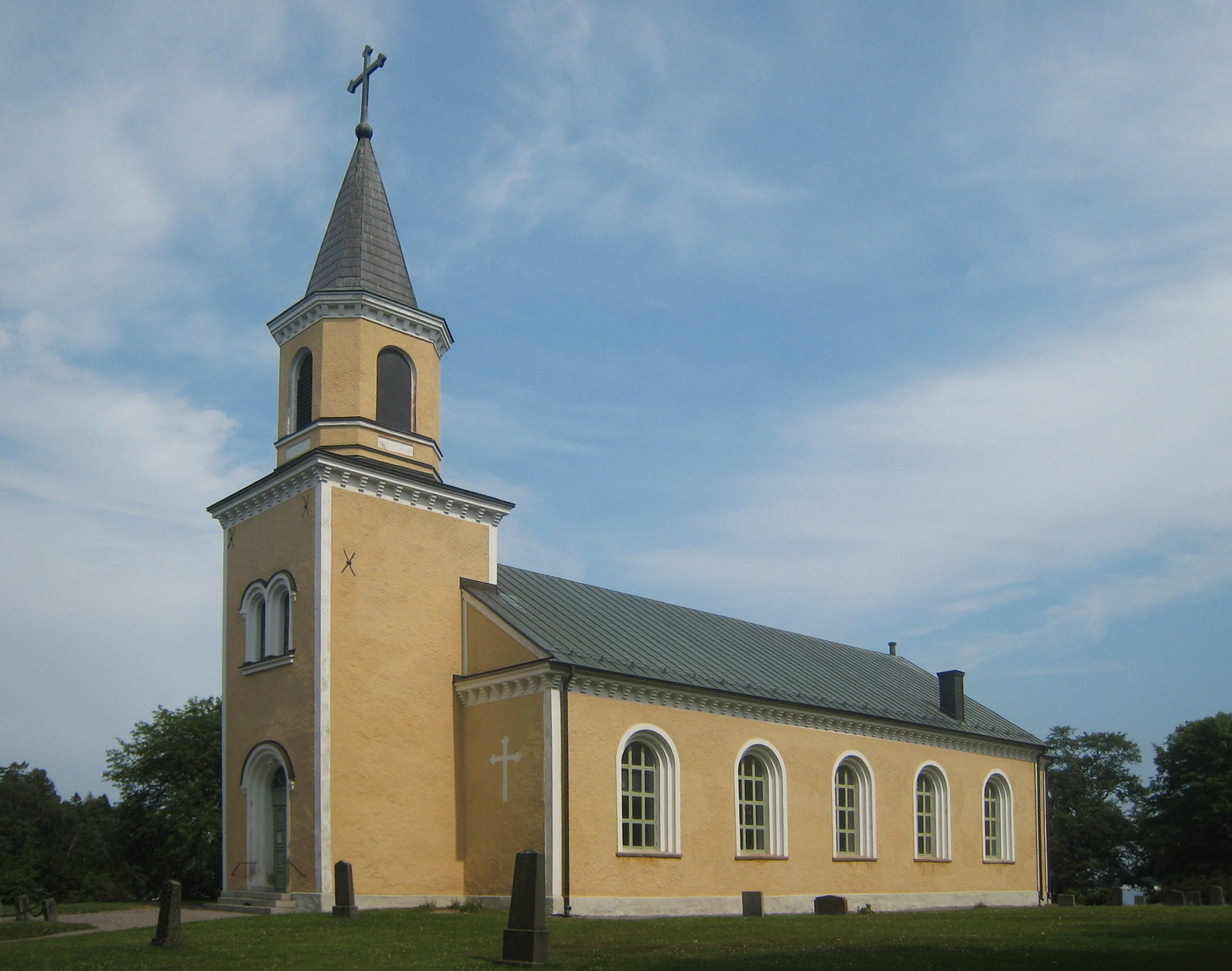 Utö kyrka.